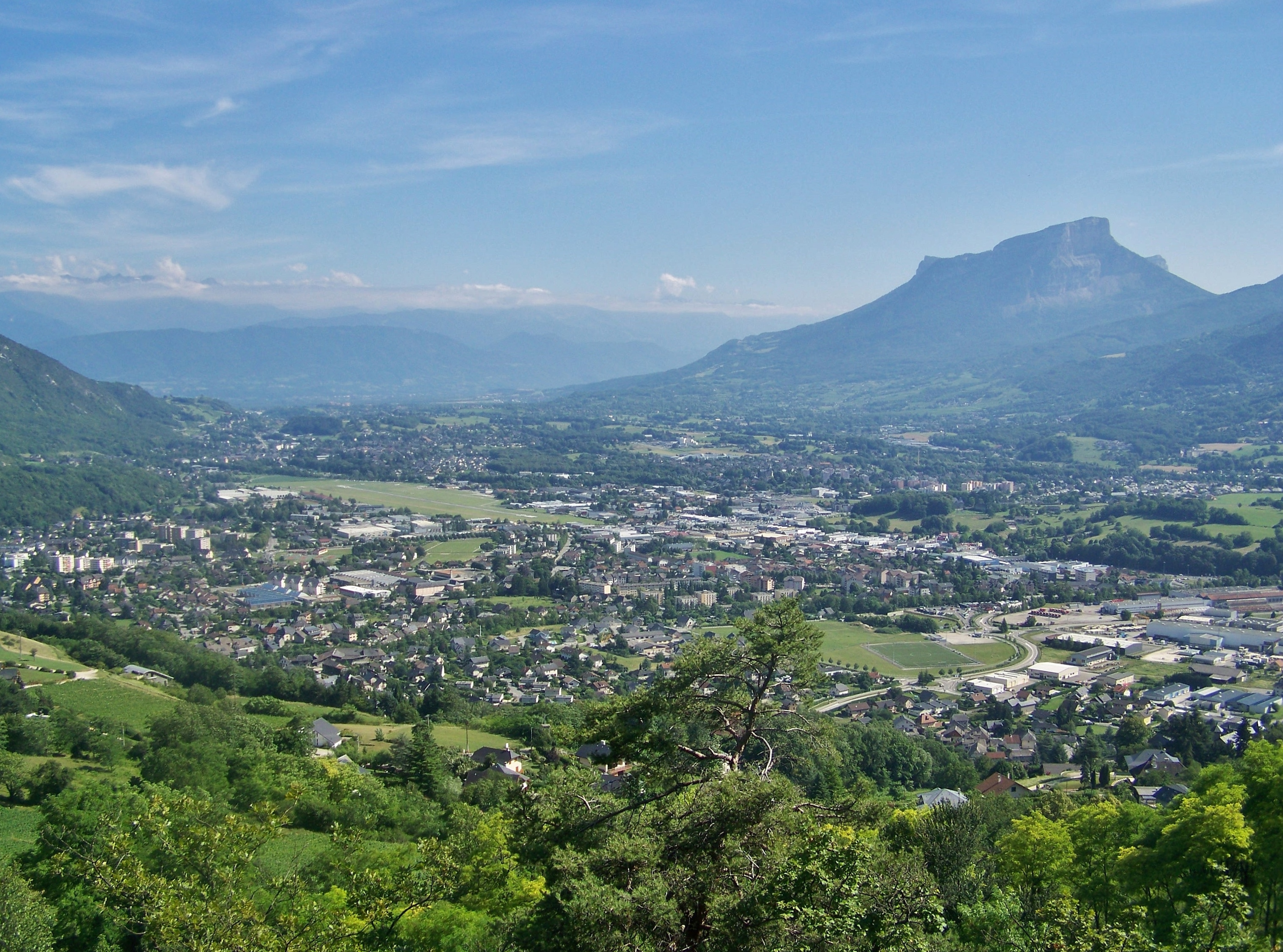 Panoramic sight on the southern side of the cluse de Chambéry valley in Savoie, France. Can mainly be seen communes of Saint-Alban-Leysse, Barby, Challes-les-Eaux and la Ravoire.